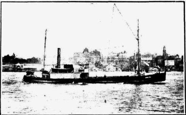 View of the Steamer Queen Bee